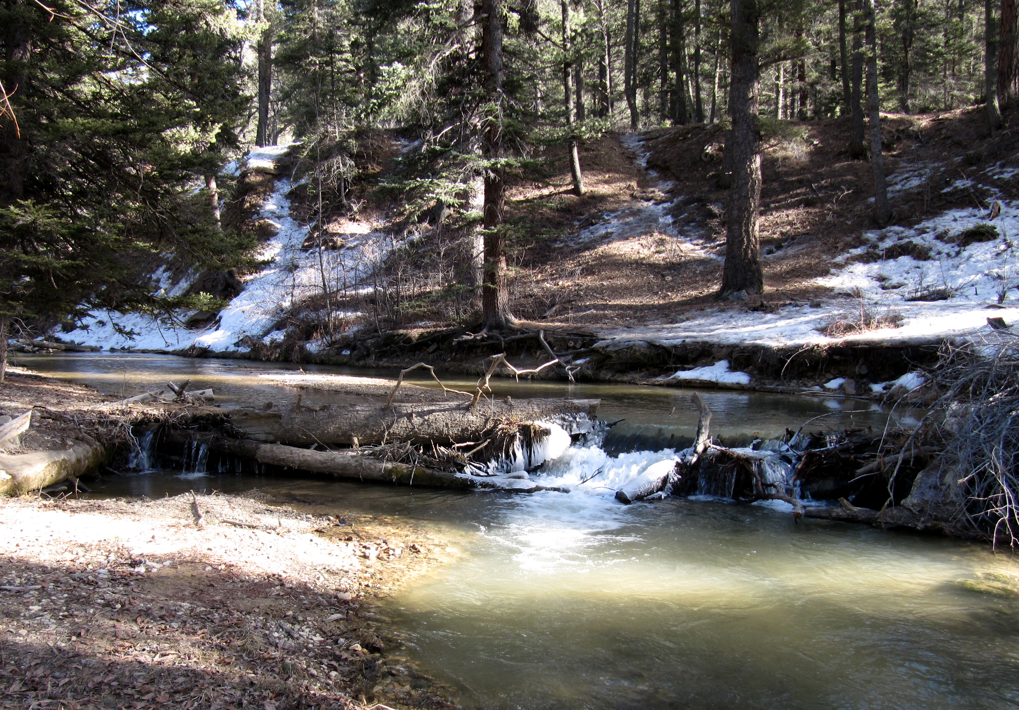 The Red River at Fawn Lakes Campground, Carson National Forest, New Mexico.